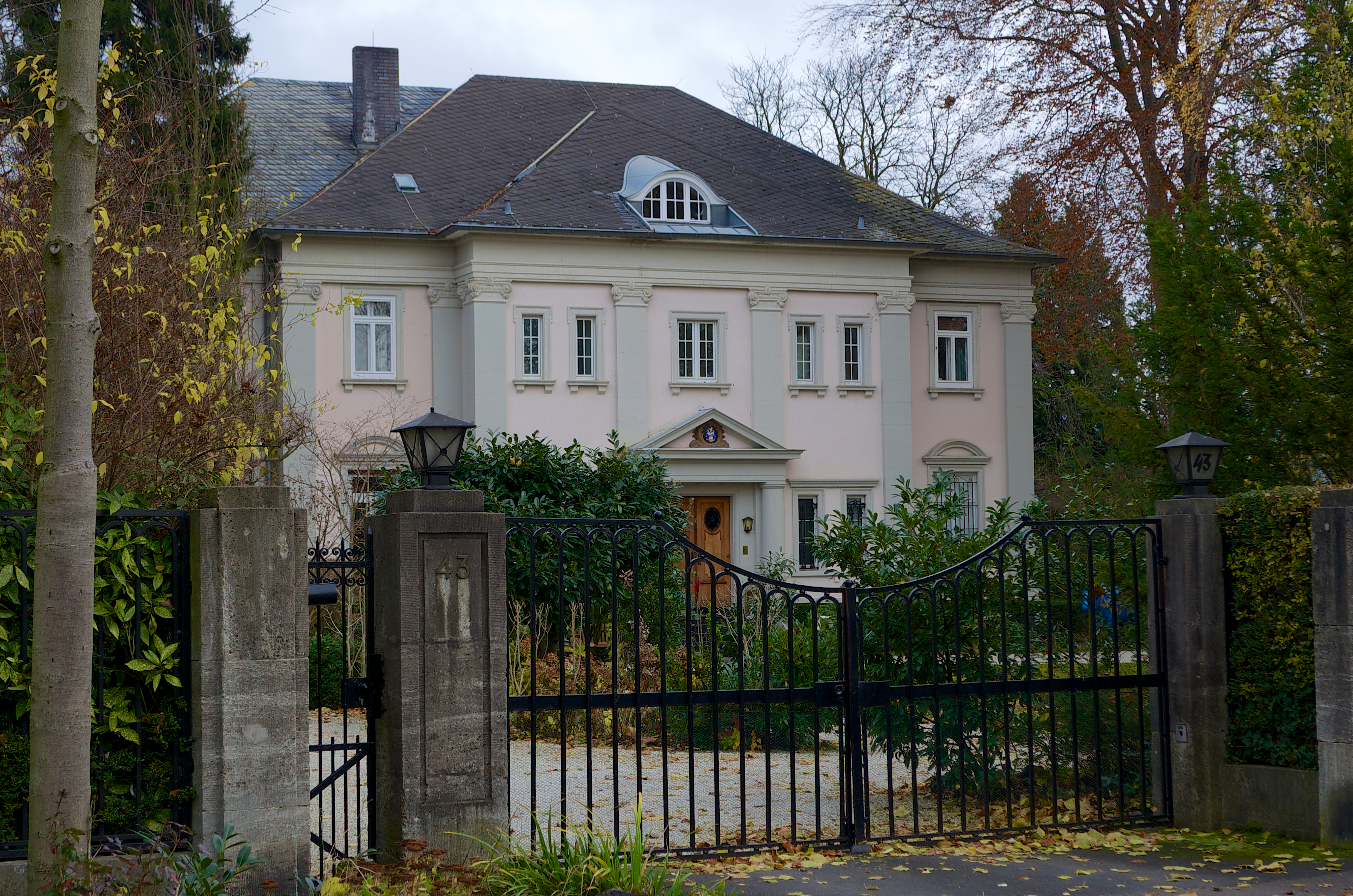 Cultural heritage monument in Bad Godesberg